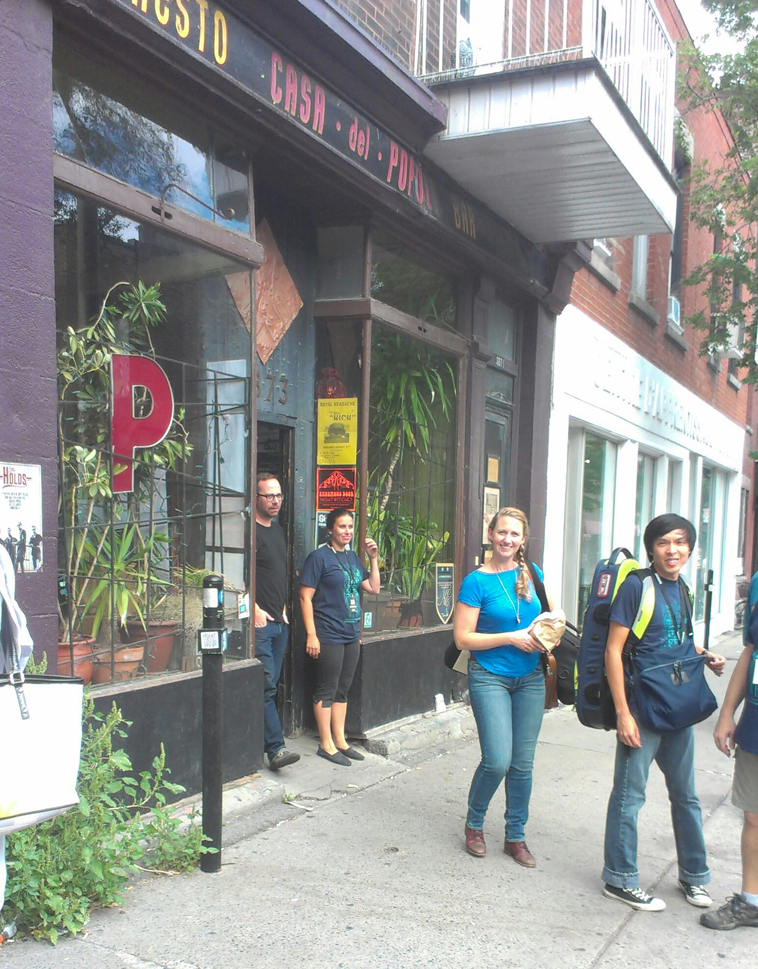 Victoria Vox outside the indie concert venue Casa Del Popolo photographed in Montreal, Quebec, Canada.